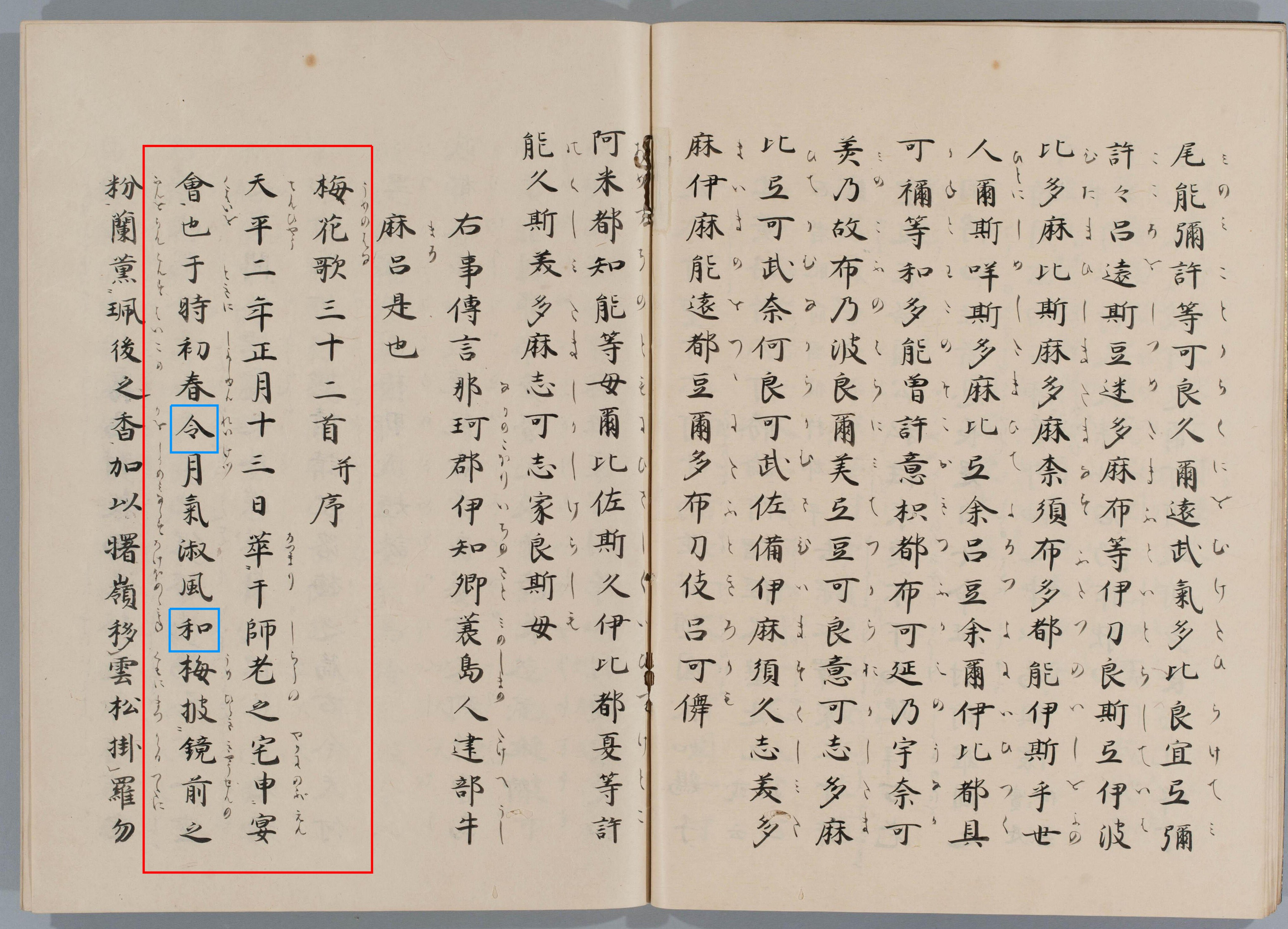 Extract of Volume 5 of the Man'yōshū where the kanji characters for "Reiwa" are derived.Annotations by @tkasasagi.